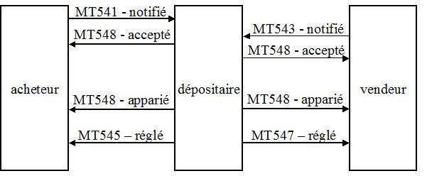 DvP simplified message sequence